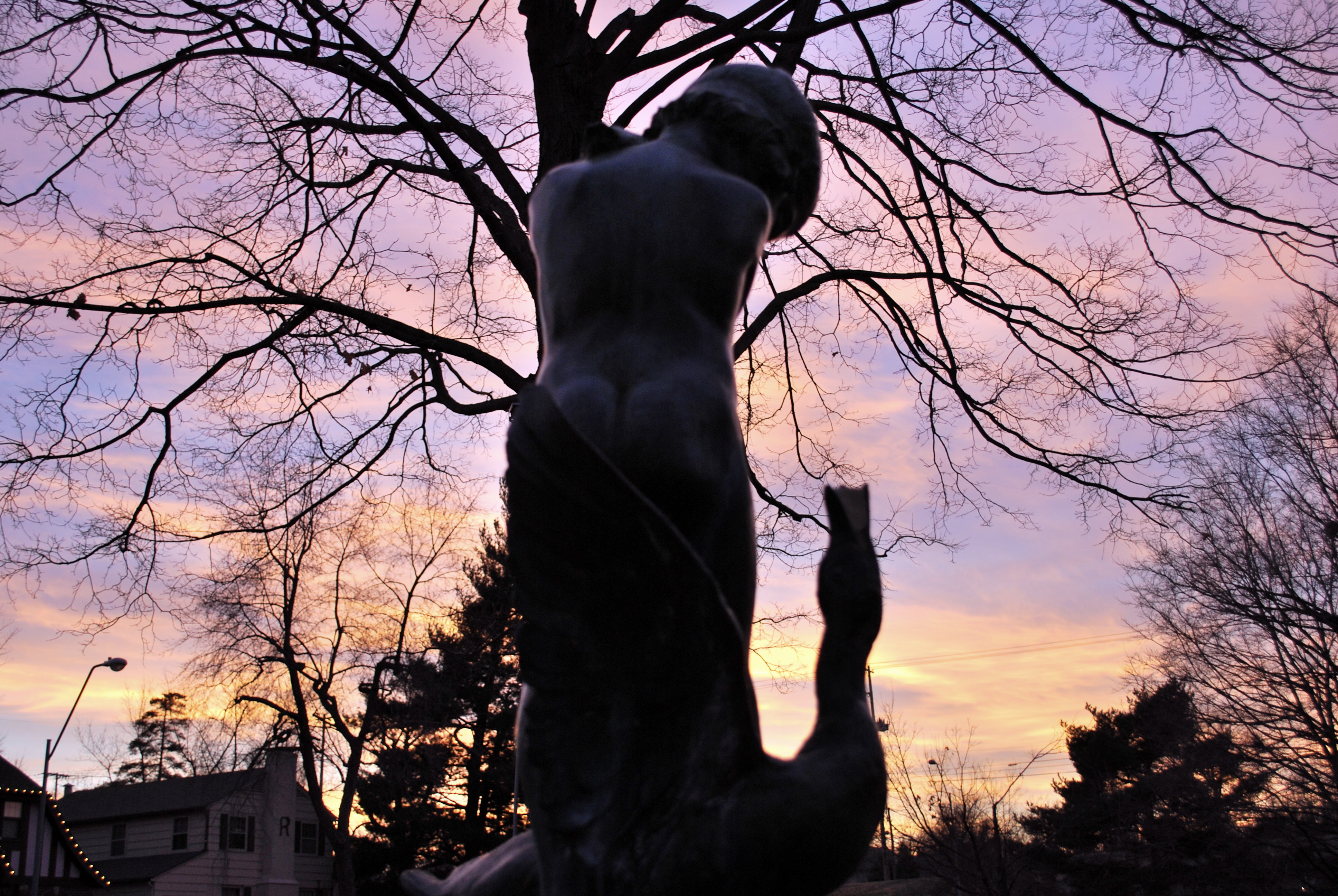 Armour Center Fountain in Armour Hills, Kansas City, Missouri, erected in 1924